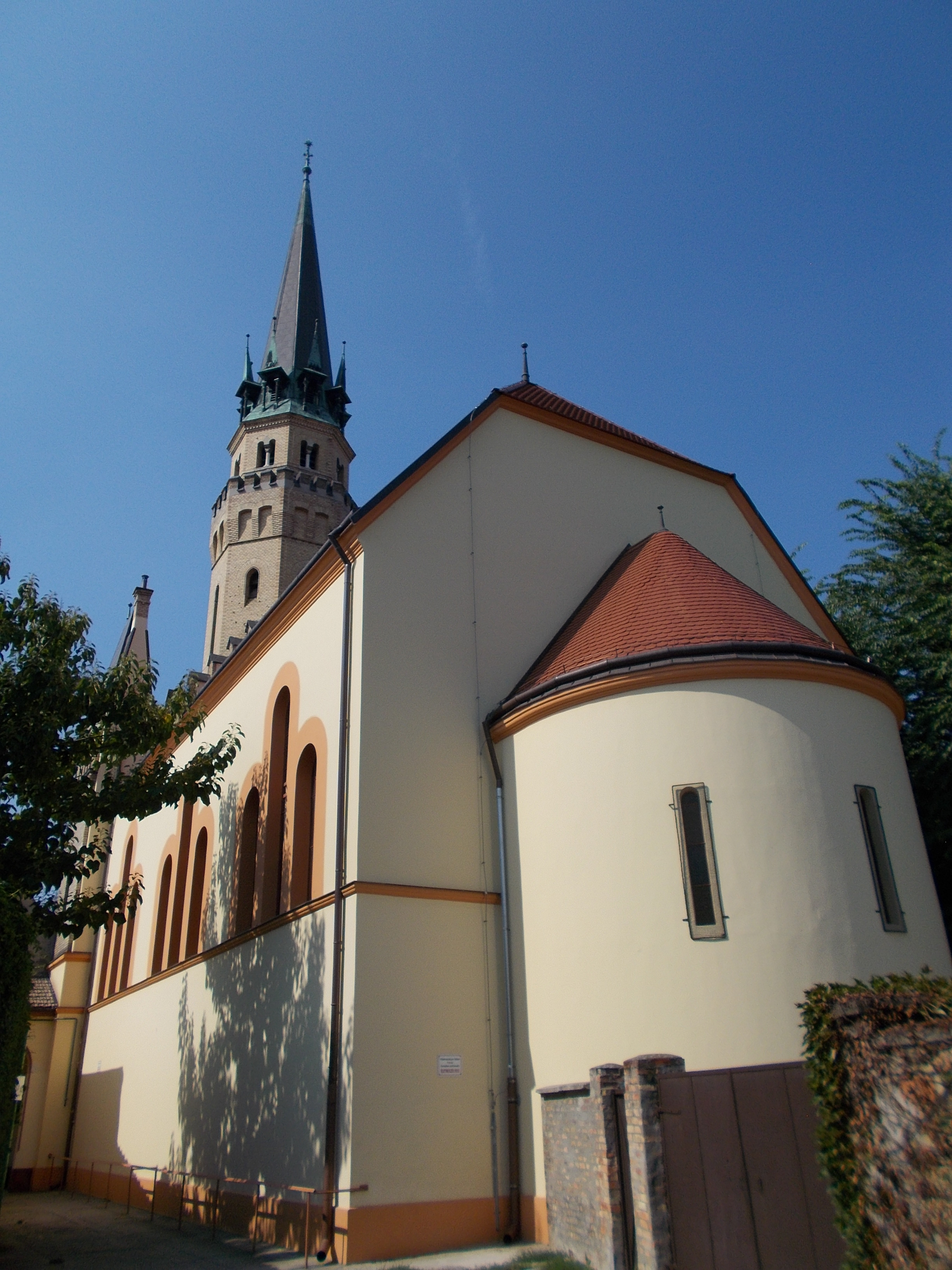 Evangelical church with the bazaar-line listed ID -1482. Neo-Gothic style. It was designed by Otto Sztehlo architect. The church was consecrated in 1896. - Szabadság Sq., Cegléd, Pest County, Hungary